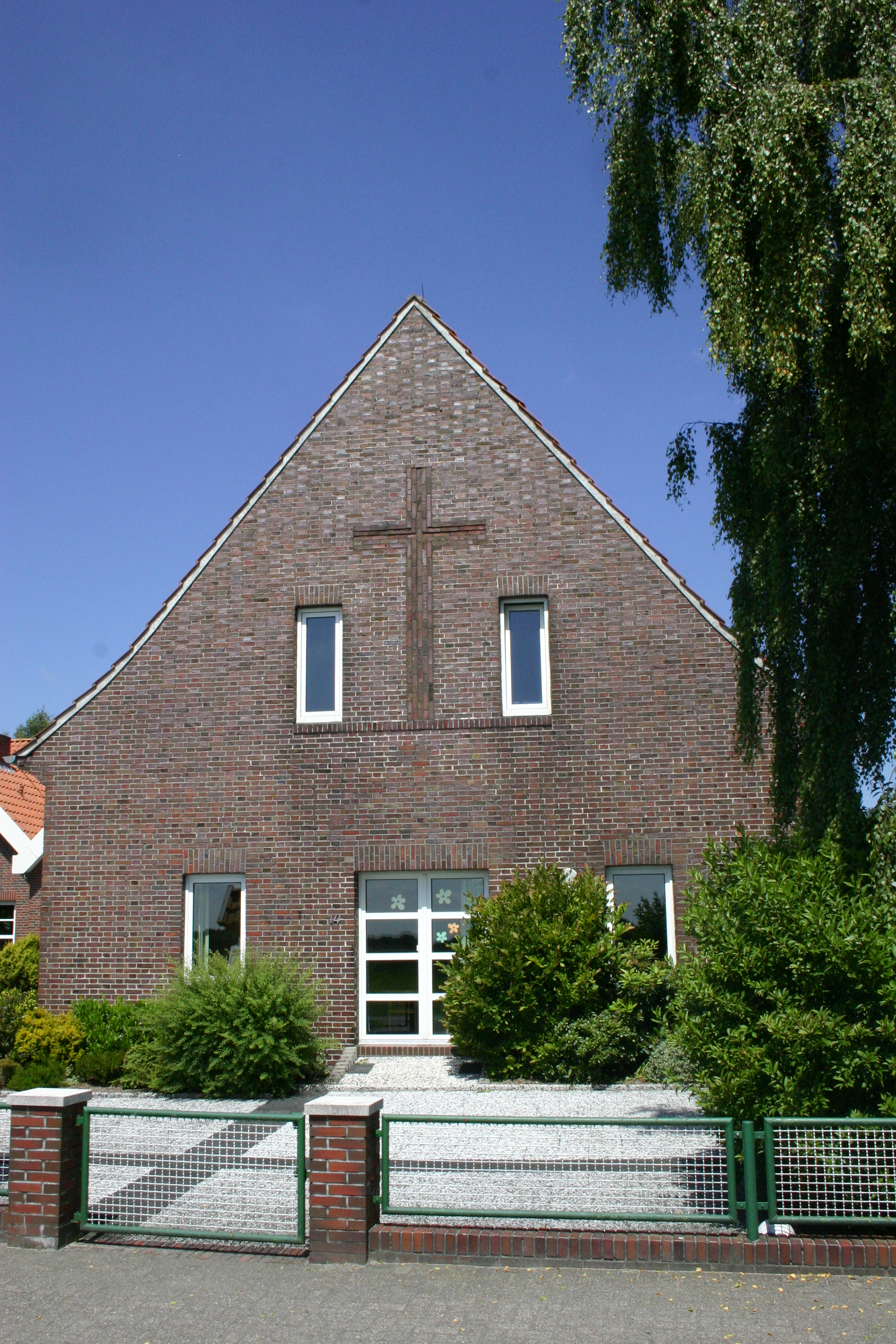 Historic church (Baptist) in Firrel, district of Leer, East Frisia, Germany